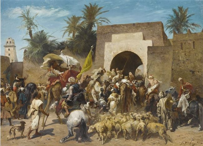 Return from the Razzia